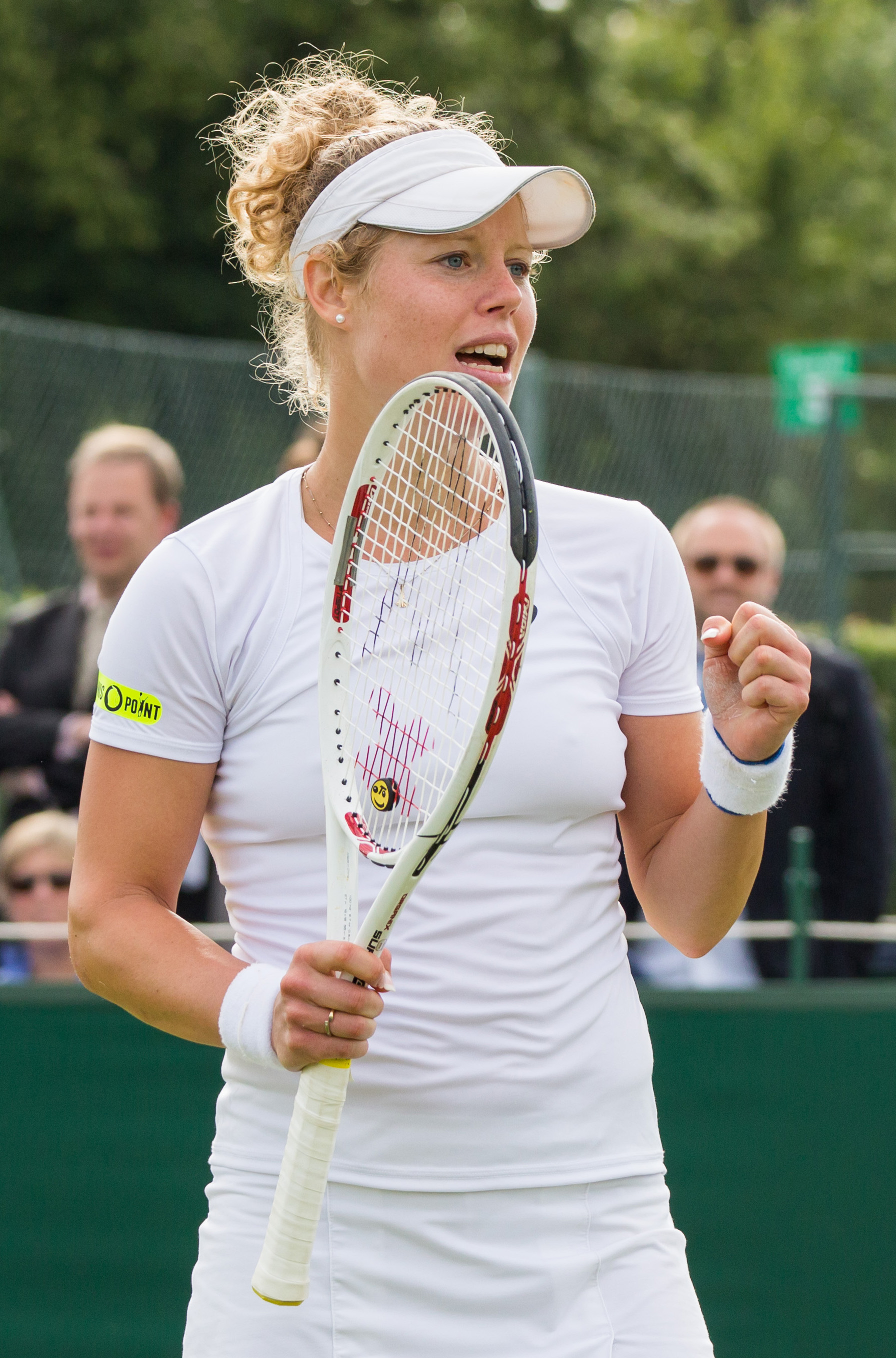 Laura Siegemund competing in the first round of the 2015 Wimbledon Qualifying Tournament at the Bank of England Sports Grounds in Roehampton, England. The winners of three rounds of competition qualify for the main draw of Wimbledon the following week.